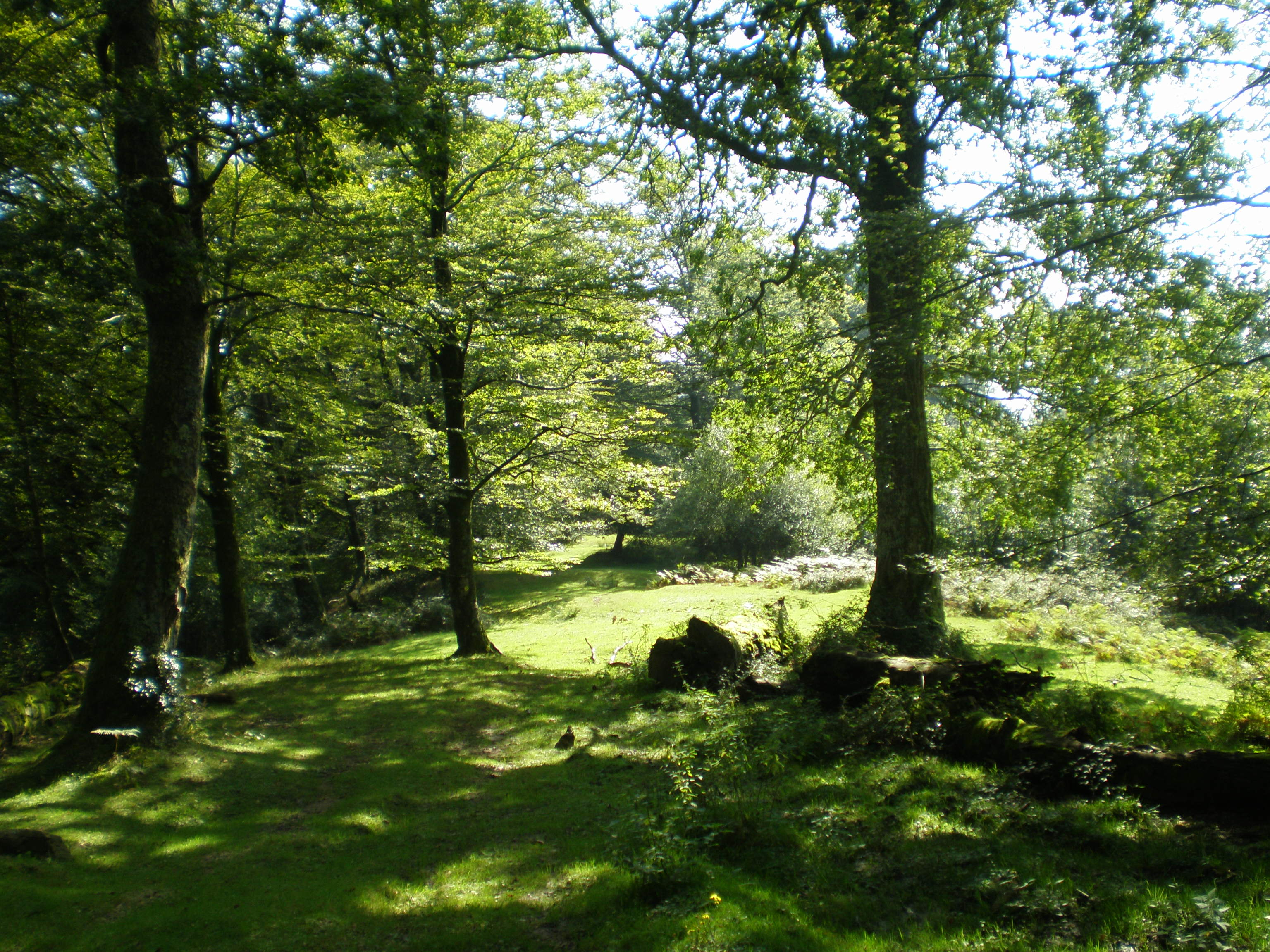 Common beechs and oaks in Ucieda's Forest, in the municipality of Ruente, Cantabria.